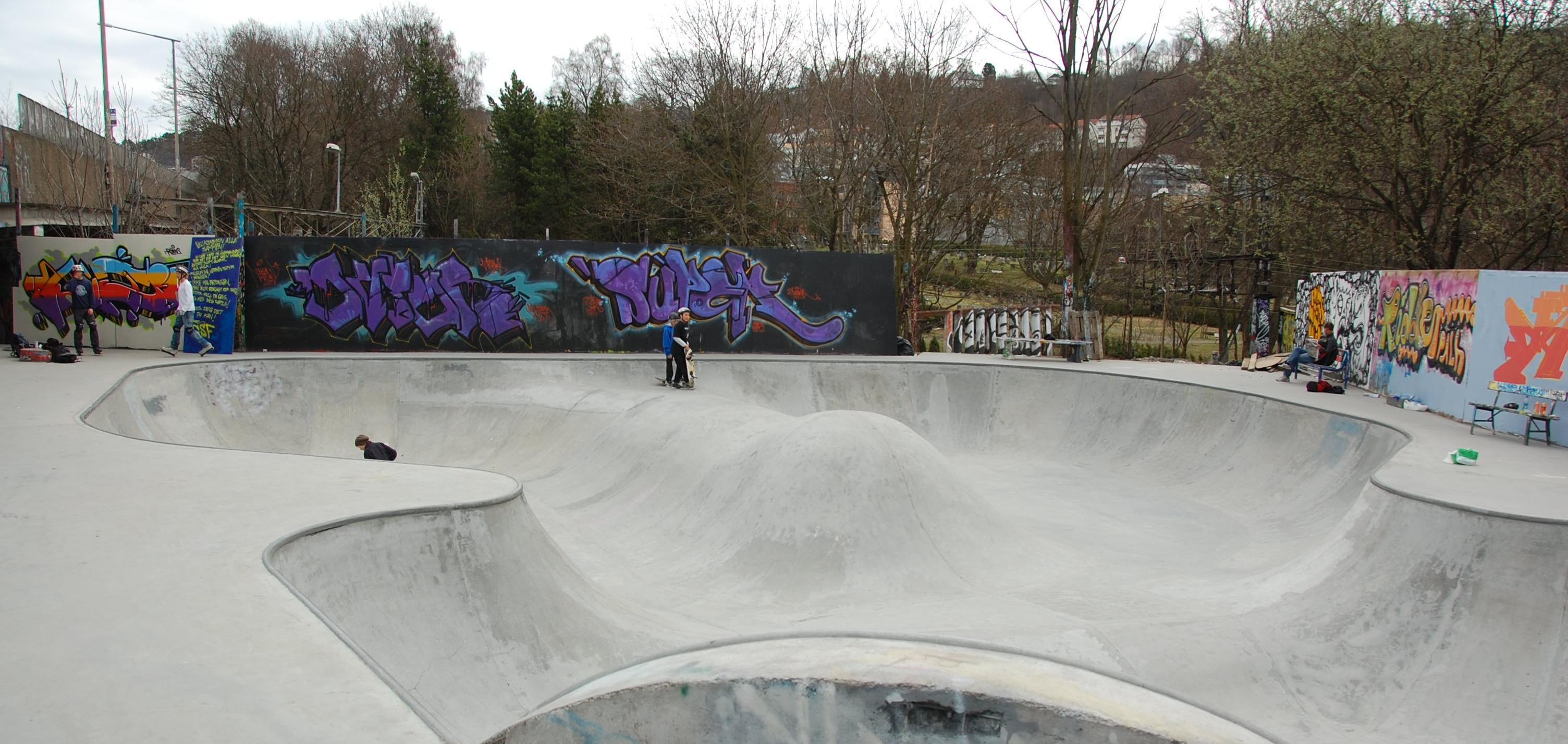 GSF Skateboardpark in Oslo